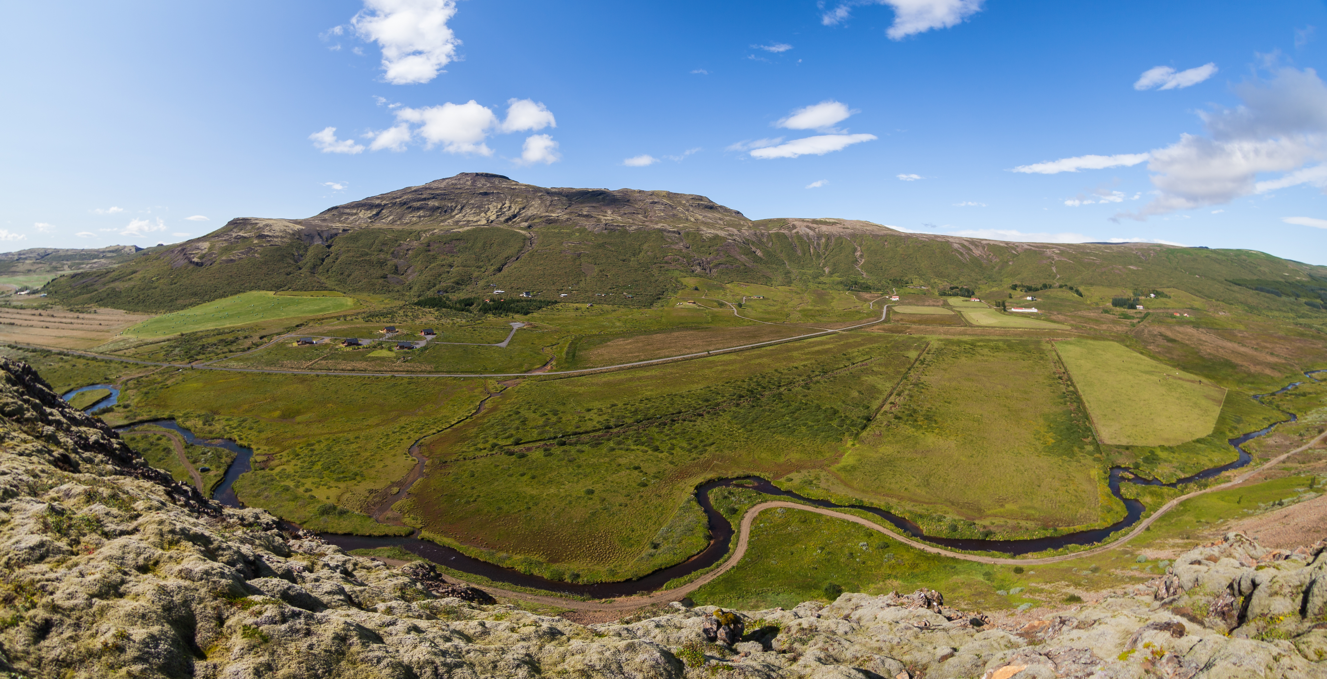 Haukadalur valley from Laugarfjall, Suðurland, Iceland